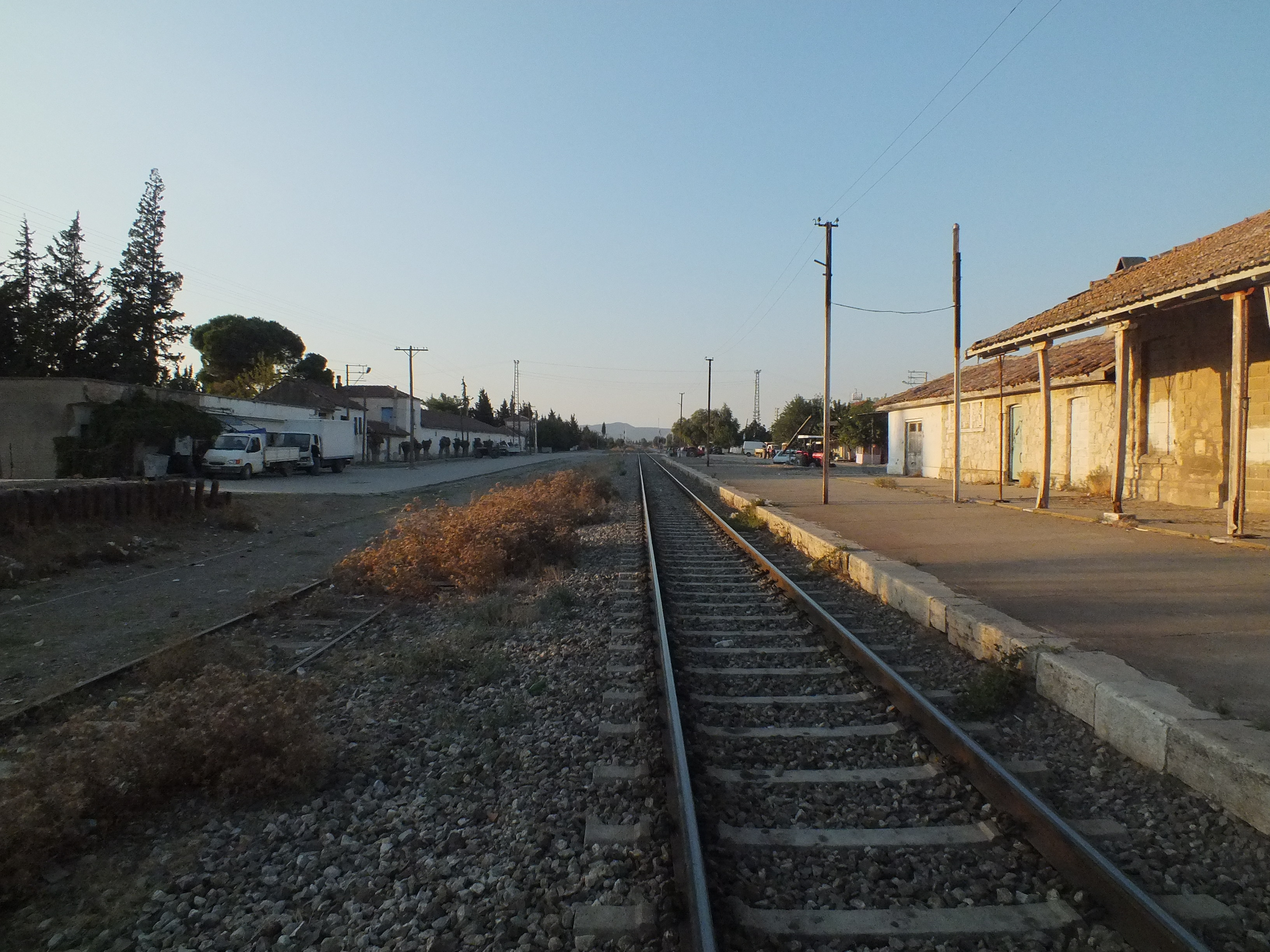 The Izmir-Egirdir railway line at Develikoy.